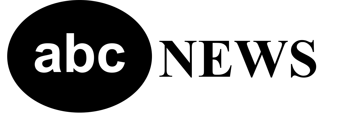 Logo of .co